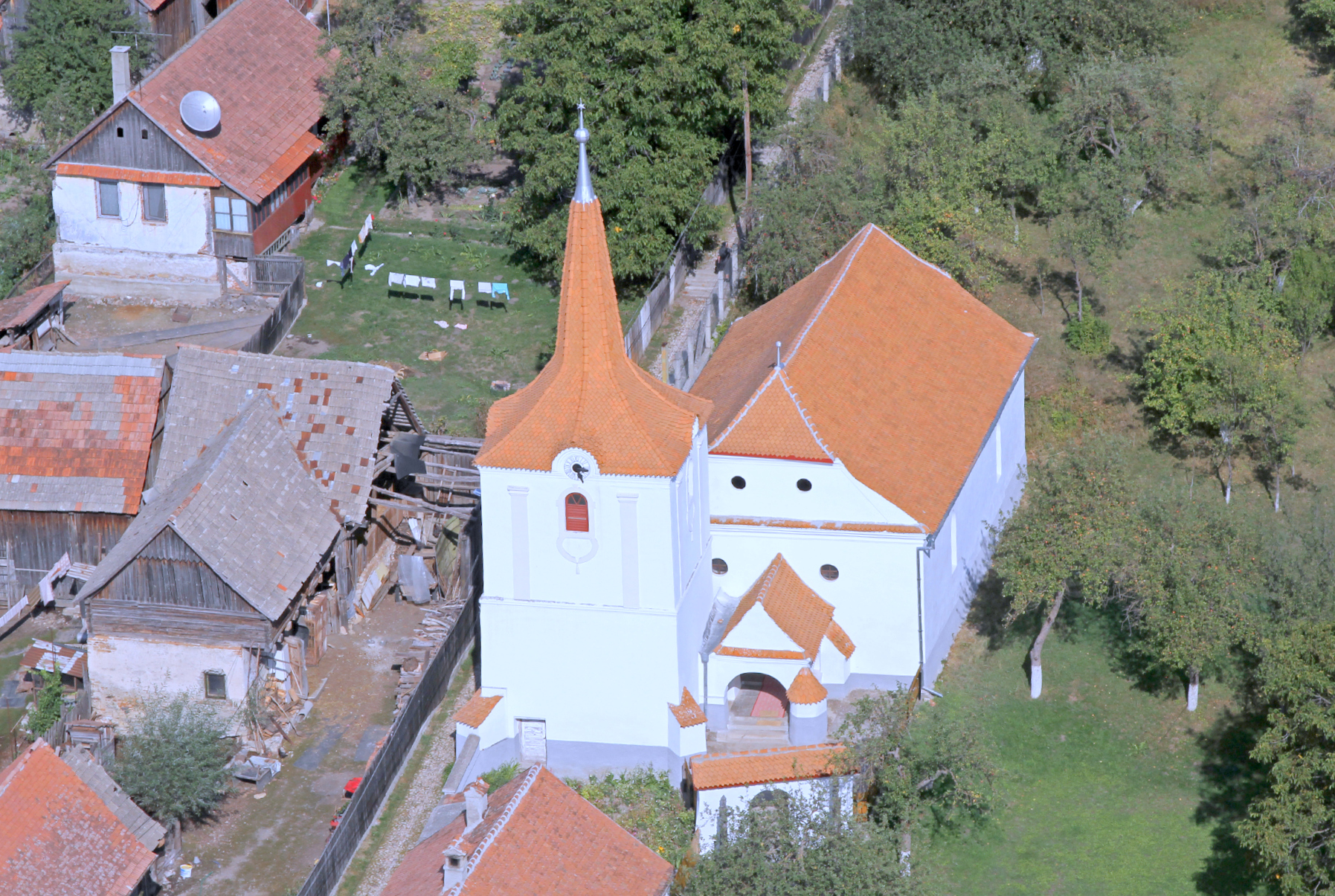 Reformed church in Hoghiz, Brașov county, Romania